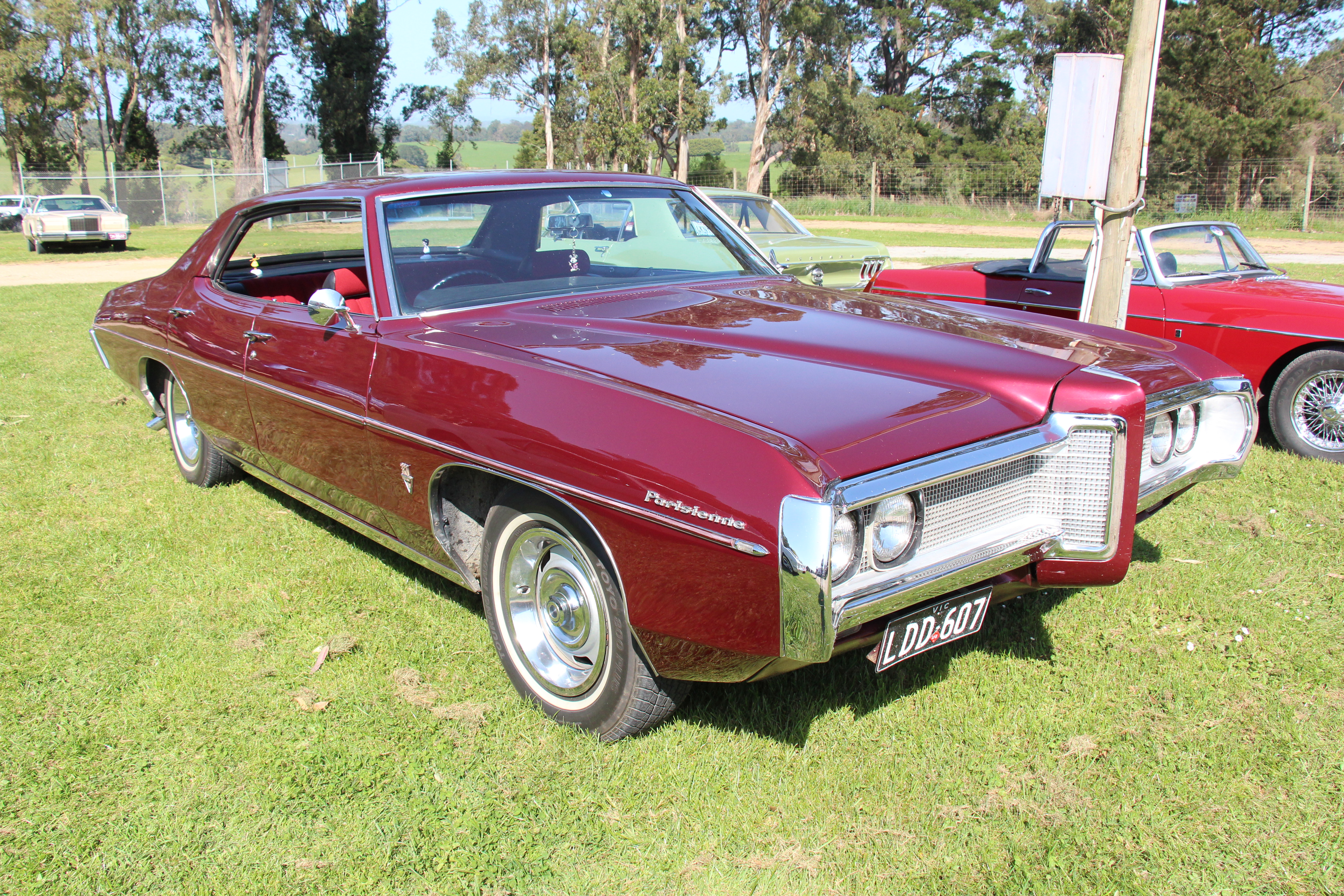 These Canadian Pontiacs used Chevrolet chassis and drivetrains and Pontiac bodies and interiors. The 1965 Pontiac got a restyled coke bottle profile and Impala dash. Base model was the Strato Chief (US Catalina and Chev Biscayne). Mid was the Laurentian (US Star Chief and Chev Bel Air) and Top was the Parisienne (US Bonneville and Chev Impala) In 1968 the headlights reverted back to horizontal and it got a beak nose split grille. From 1963-69, right hand drive versions were shipped to Australia in CKD form and assembled at General Motors Holden plant using some domestic parts such as seats, heaters, opposing windscreen wipers and 2 speed ventilation systems.) In 1969 only the 4 door Hardtop was available Engine; 350 cu in V8